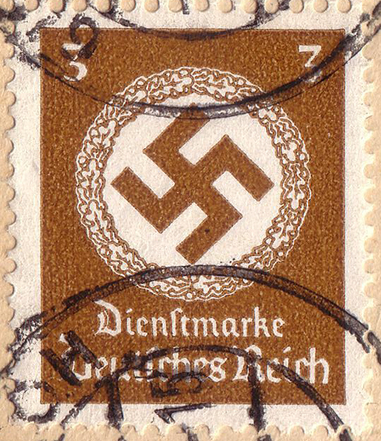 Official stamp, 1934 3 Pfg issue, Michel N°132, cancelled on 5.9.1936